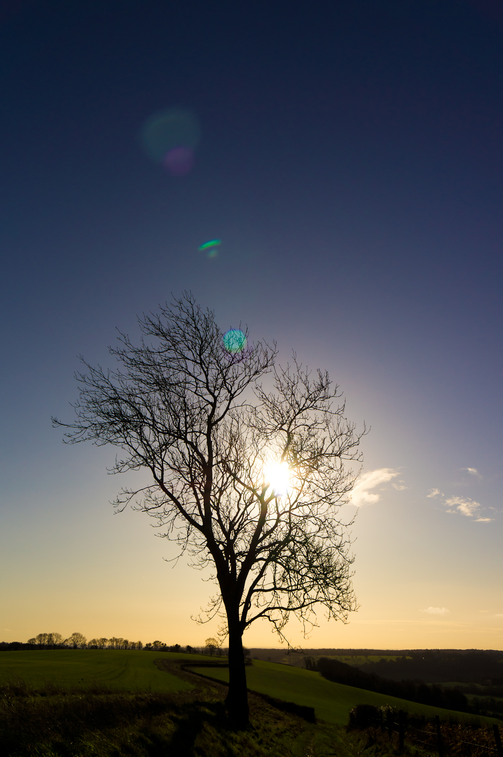 Tree and Lens Flare